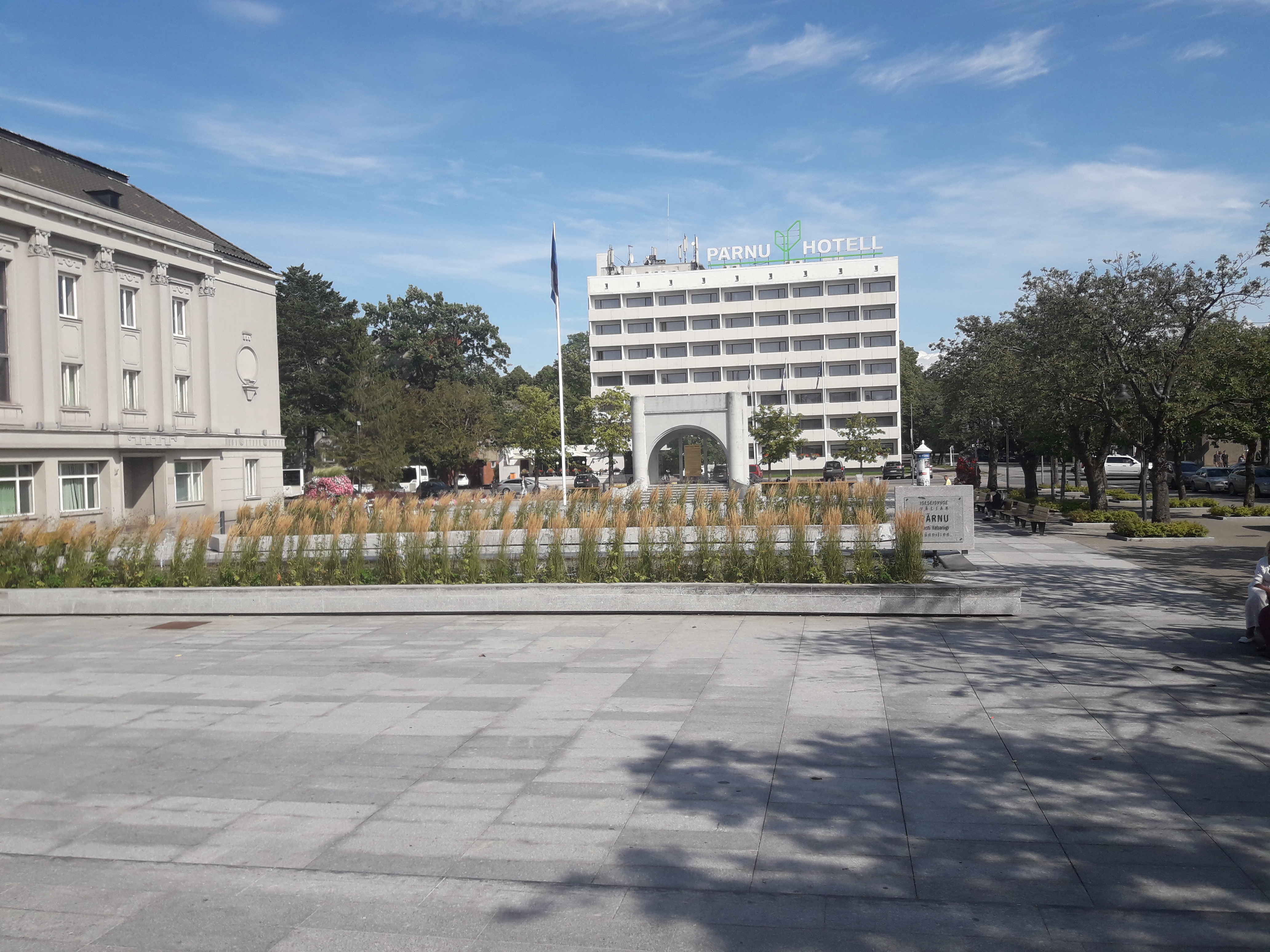 Iseseisvuse väljak, Pärnu